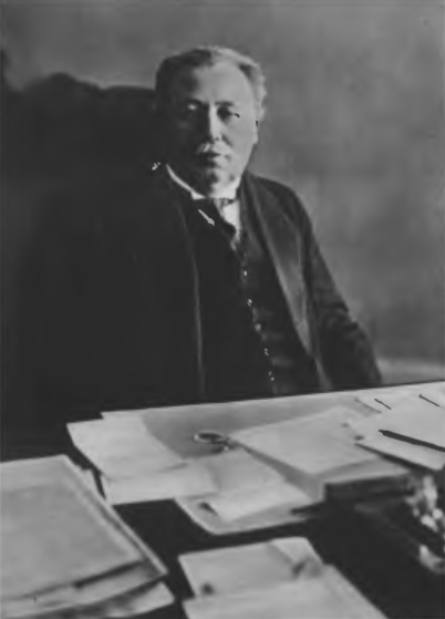 Wojciech Trąmpczyński, Polish Sejm's speaker.